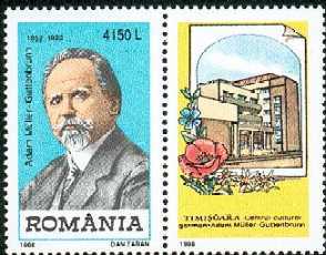 Stamp 1998 Adam Mueller-Guttenbrunn